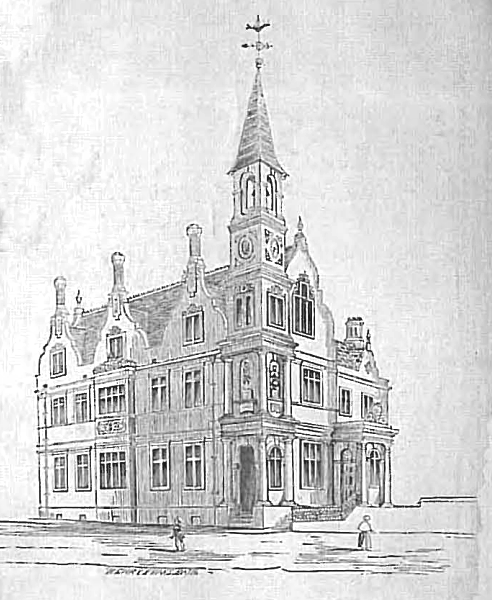 Former Bluecoat School in Bath - new design sketched in 1856 (built later) - building is now Bluecoat House